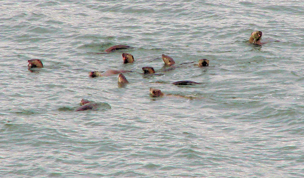 Raft of River Otters (Lontra canadensis) in Ganges Harbour, Saltspring Island, British Columbia